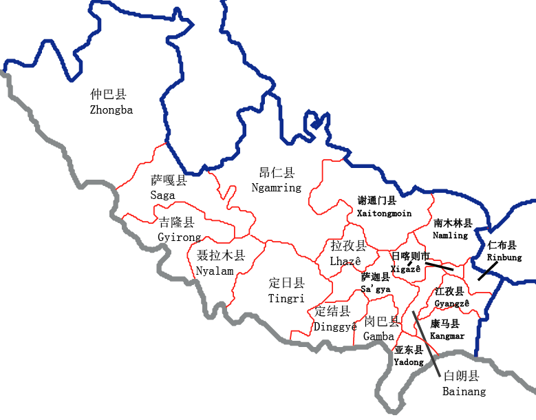 Counties in Xigazê City (日喀则市), Tibet Autonomous Region of China